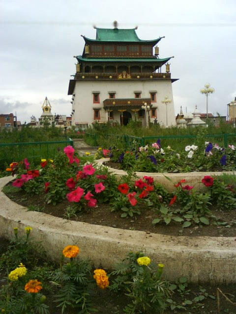 Avalokiteshvara Temple in flowers, Ulaanbaatar, Mongolia